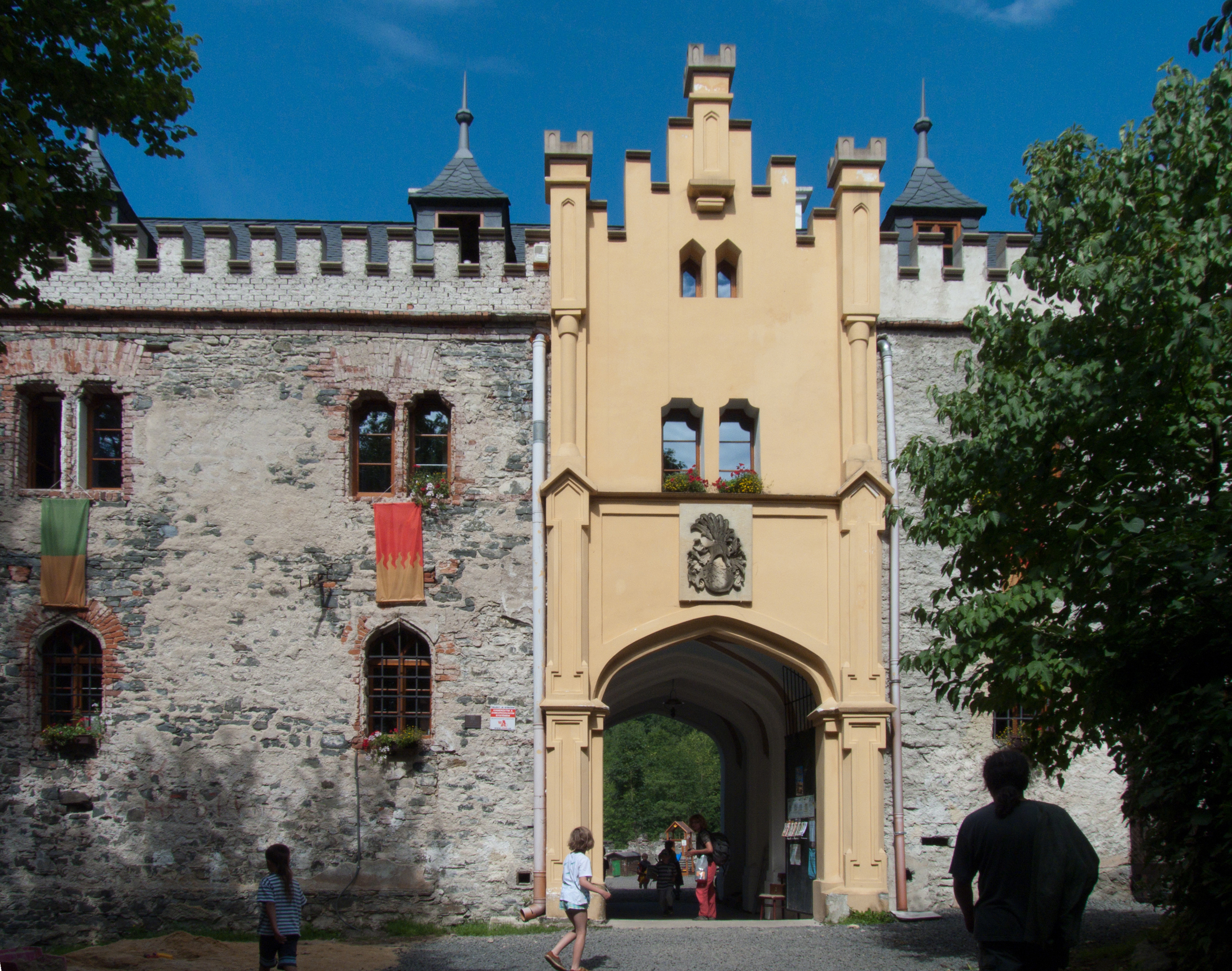 Gate - entrance to the castle of Hauenštejn, Karlovy Vary District, Czech Republic